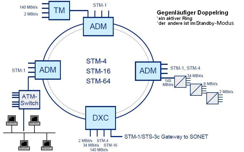 Synchronous optical networking